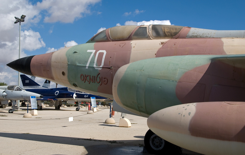 Sud SO-4050 Vautour IIN Stored at the Israel Airforce museum. Beersheba - Hatzerim (LLHB) 17-11-2009